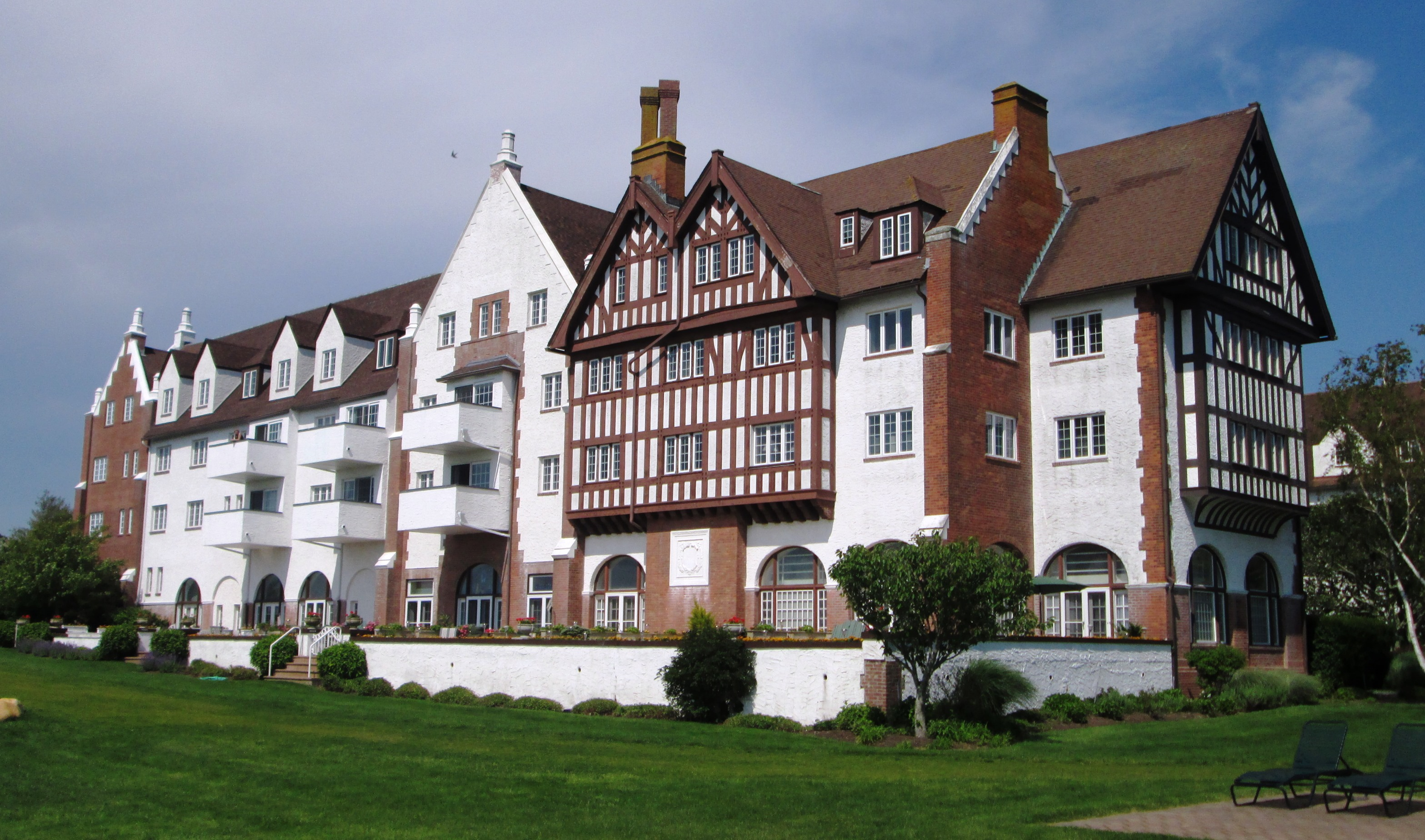 Montauk Manor is a historic resort hotel located in the hamlet of Montauk in Suffolk County, New York. It was built in 1926 by Carl G. Fisher and is a three-story, 200-room hotel in the Tudor Revival style. It was designed by Schultze and Weaver, the firm responsible for several Miami Beach-area hotels, The Breakers in Palm Beach, The Biltmore in Los Angeles, and The Pierre, Sherry-Netherland and new Waldorf-Astoria in New York City. It operates as a 140-apartment resort condominium hotel and was added to the National Register of Historic Places in 1984.